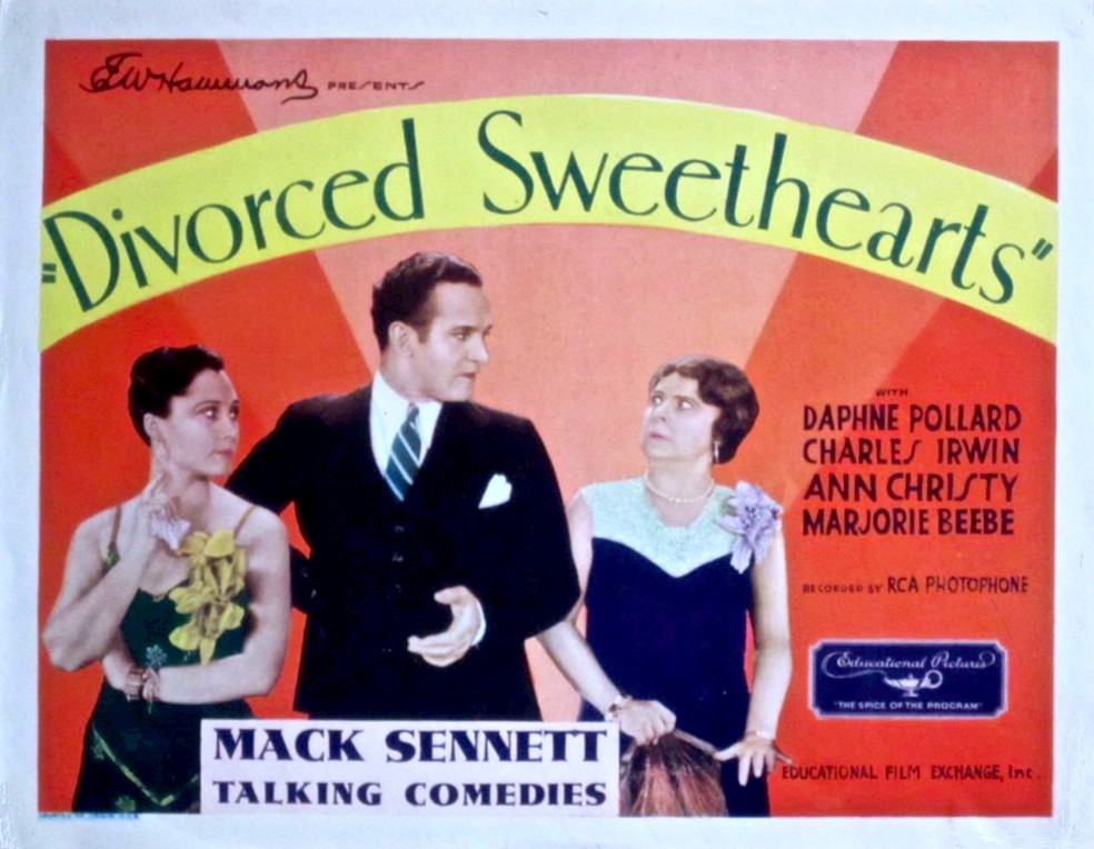 Lobby card for the American short film Divorced Sweethearts (1930).